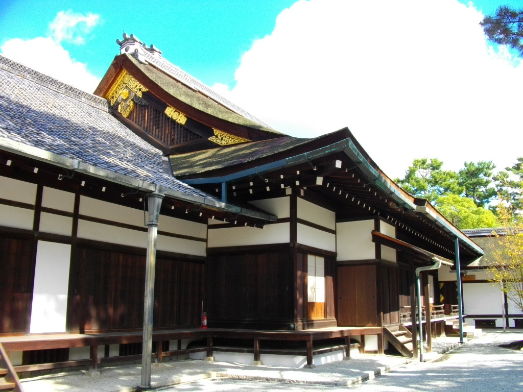 Kogogu Tsune-goten